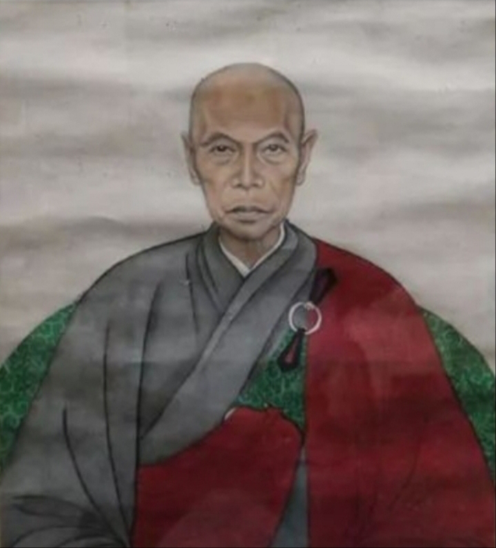 Jin Bao, politician of the last Ming, Southern Ming Dynasty.